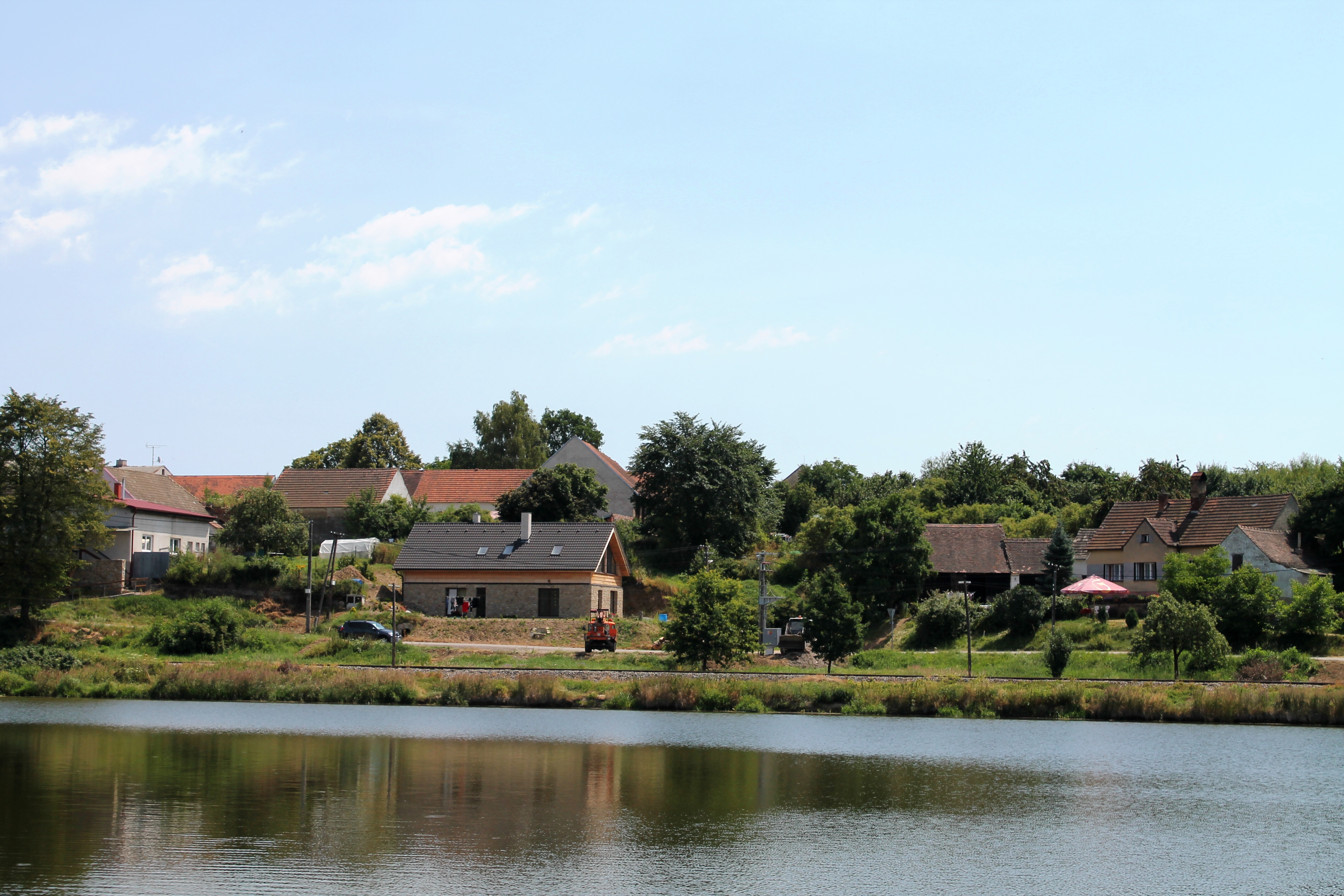 Černič pond, a part of Černíč natural monument, and Černíč, Jihlava District, Czech Republic - OpenStreetMap (Info)